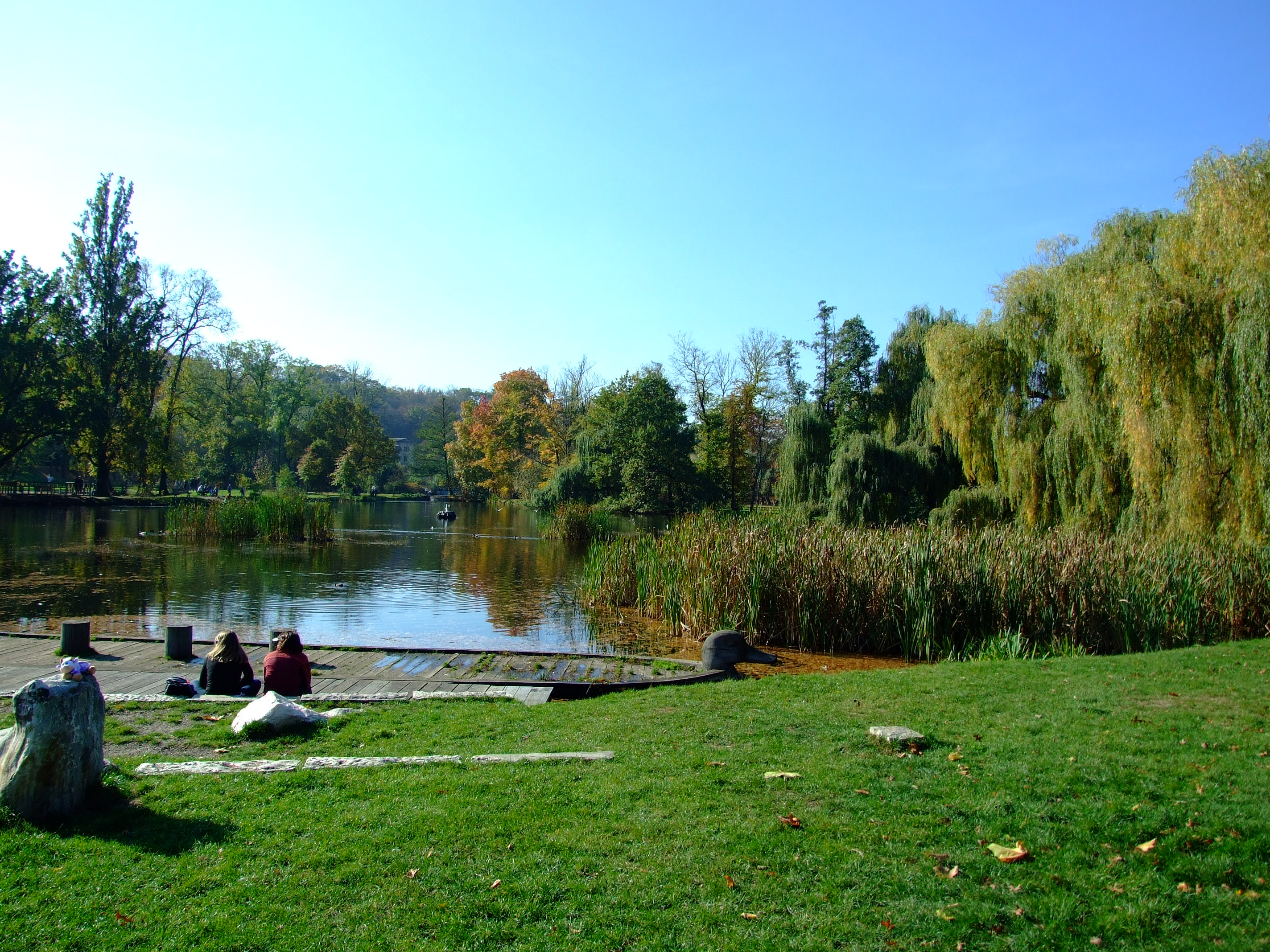 Stromovka park, Prague, CZhelp